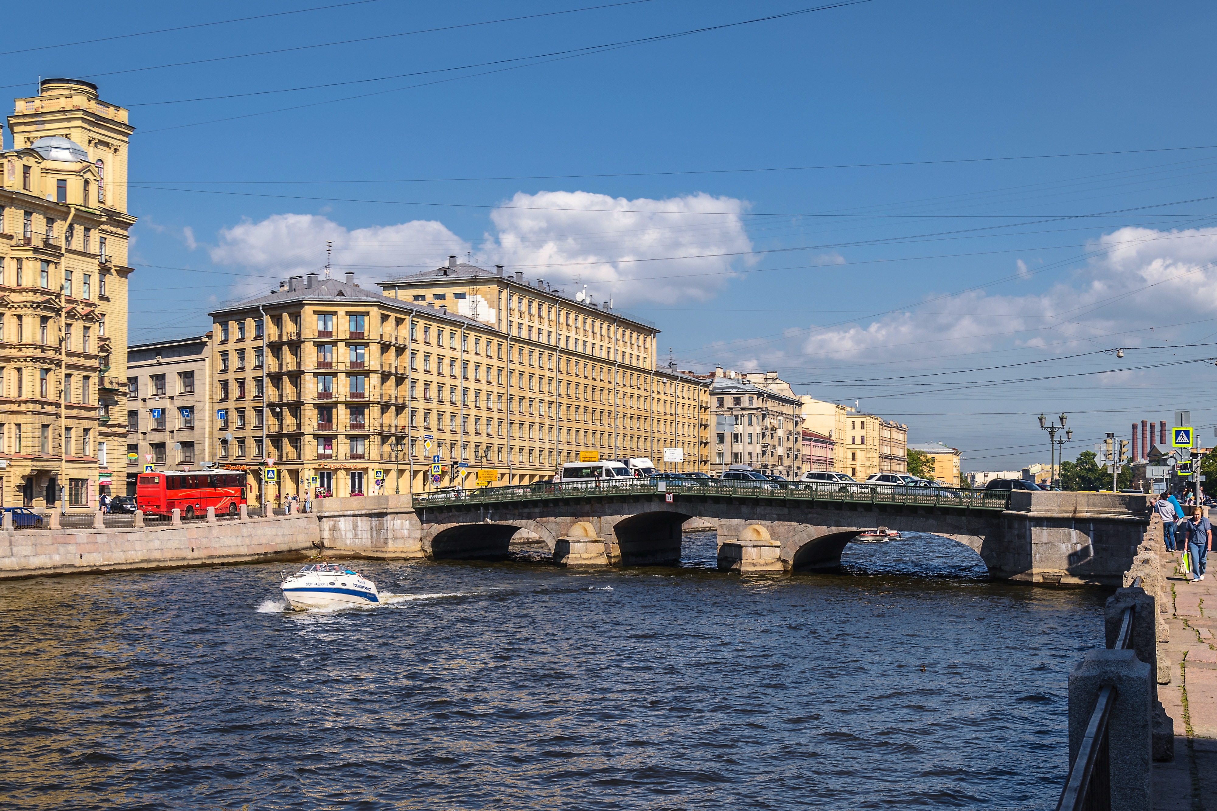 Izmaylovsky Bridge in Saint Petersburg